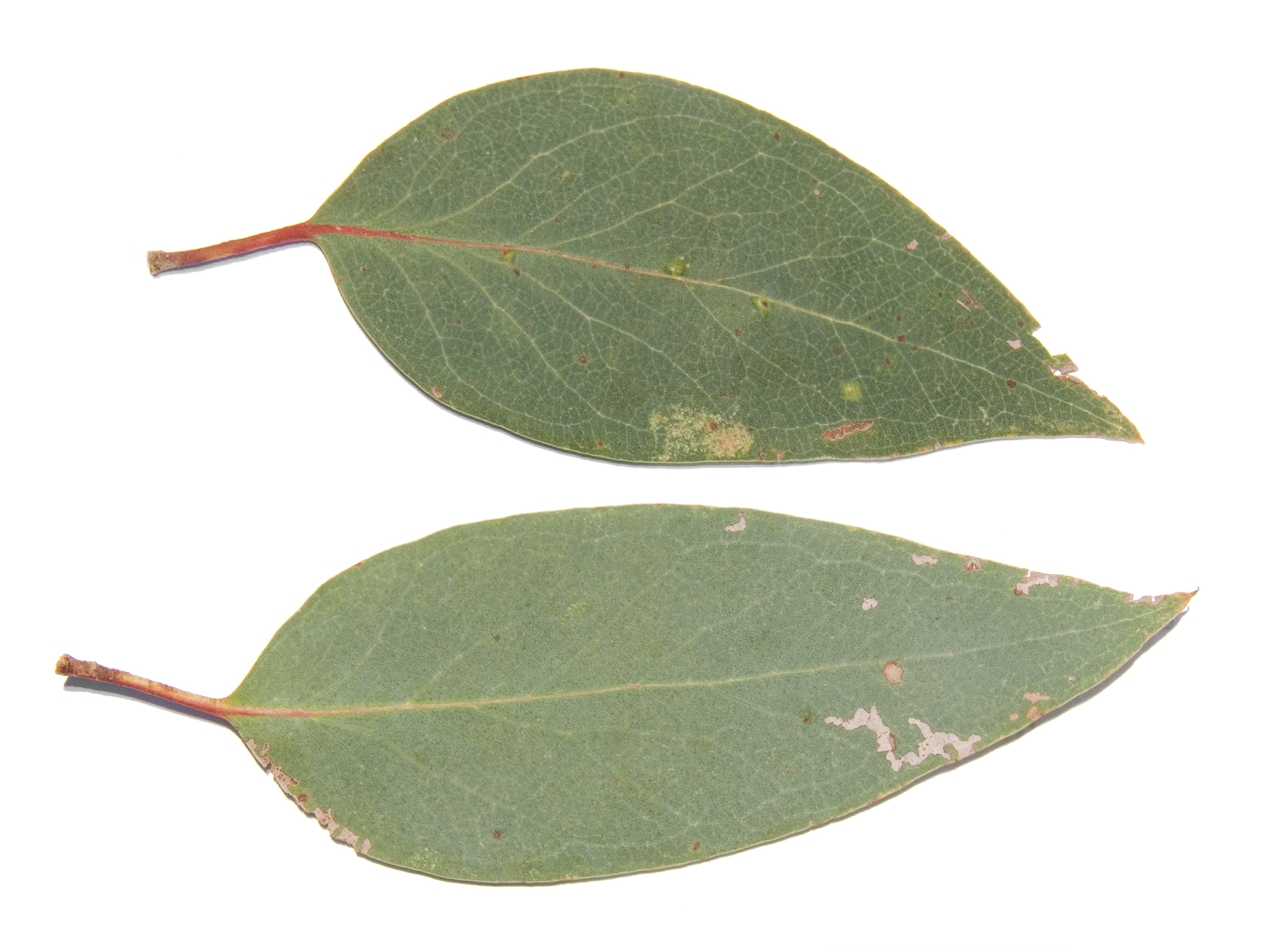 broad-leaved peppermint (Eucalyptus dives)